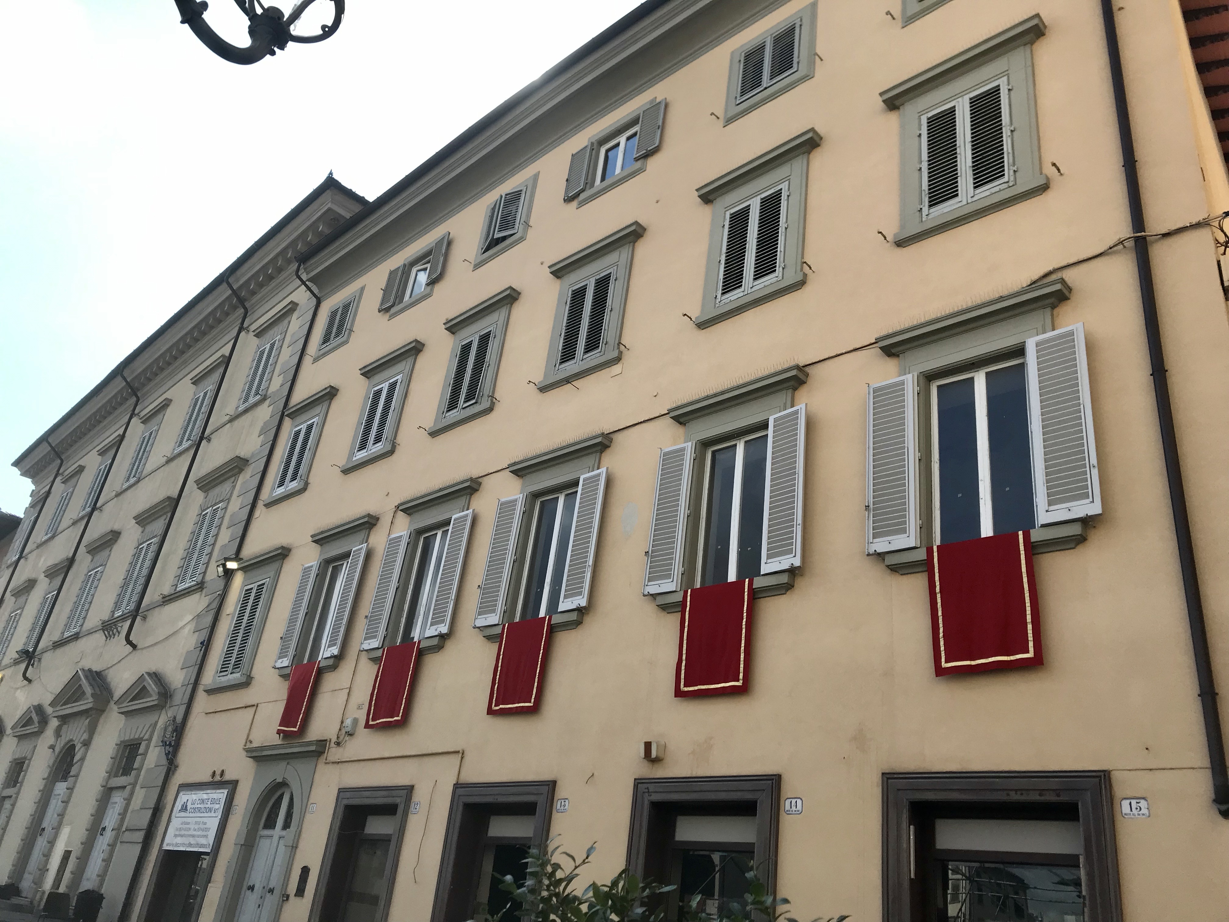 Prato Piazza del Duomo